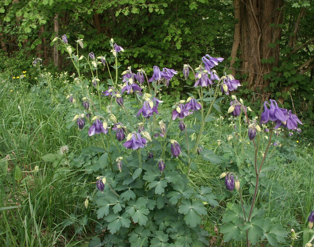 Aquilegia vulgaris, Hohenlohe, Germany